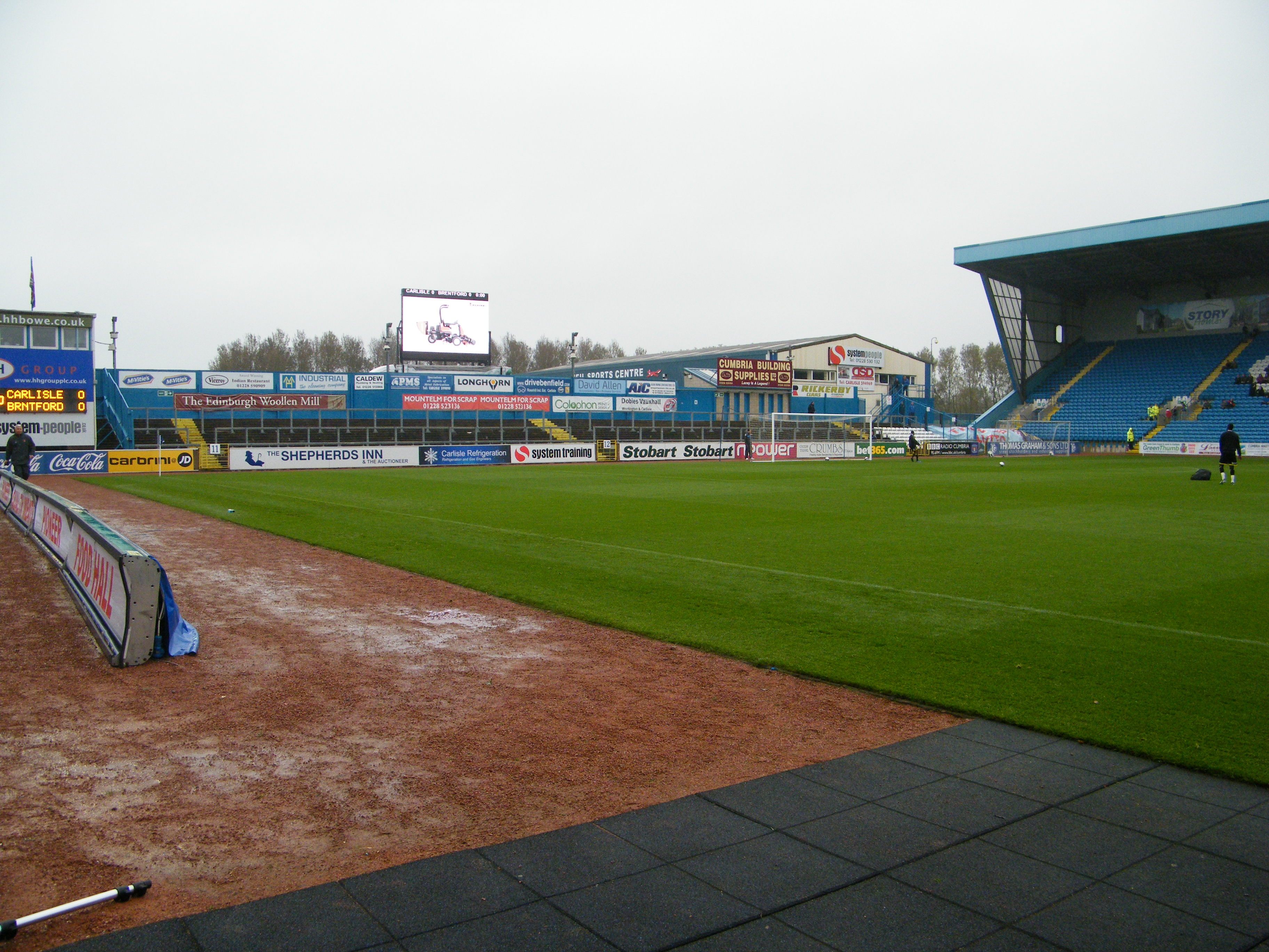 Waterworks